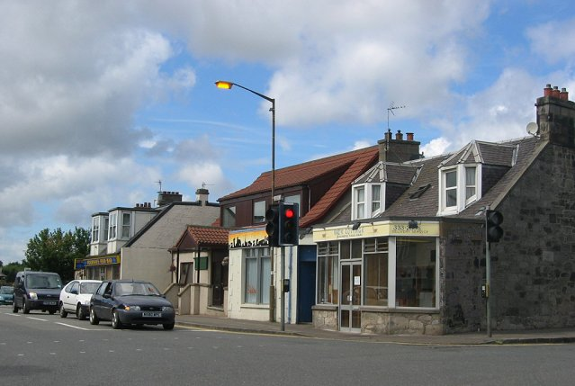 Kirkliston. Kirkliston takes up most of this square. The centre is this crossroads on the old A9 (severed by the airport).